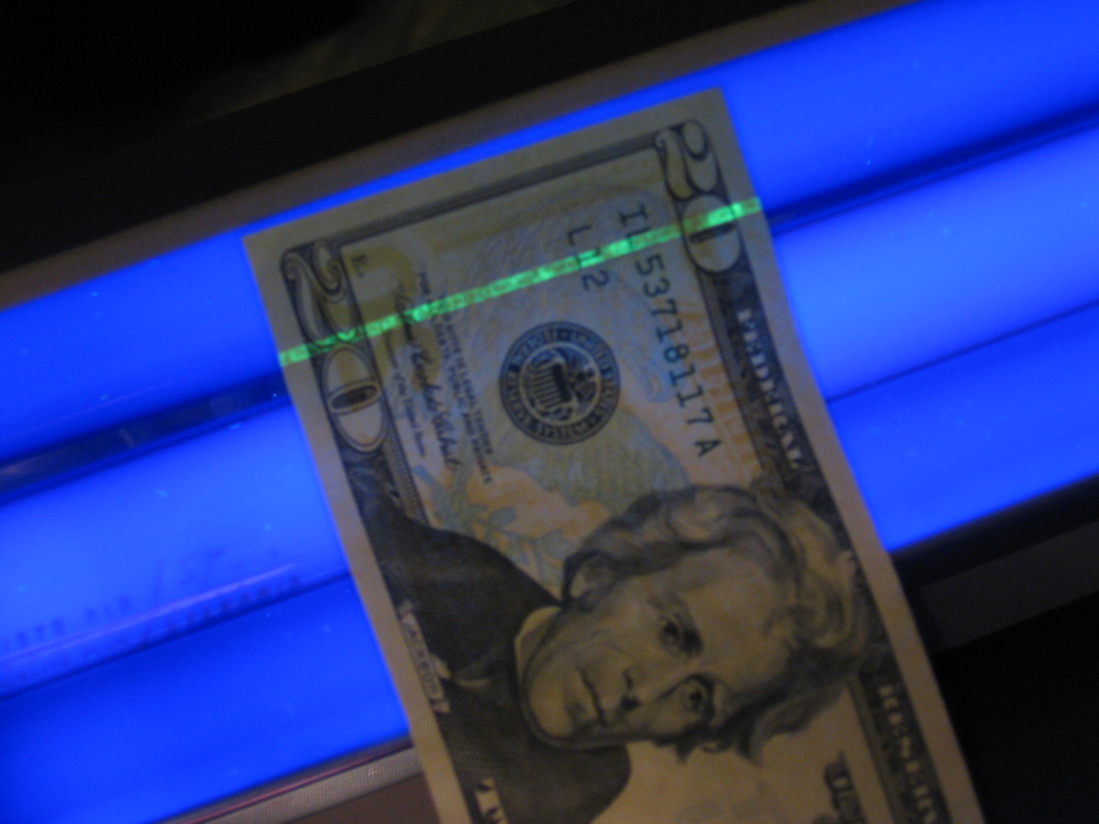 A U.S. $20 bill under a blacklight, showing the security strip glowing green.